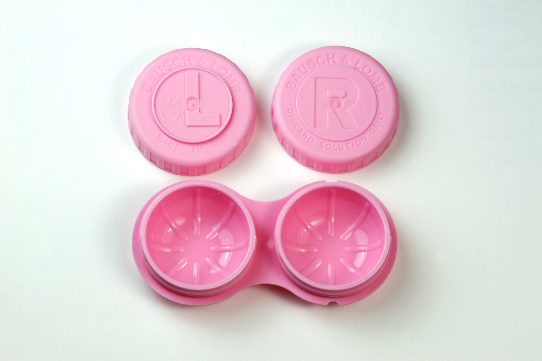 Lens cover for storing contact lens